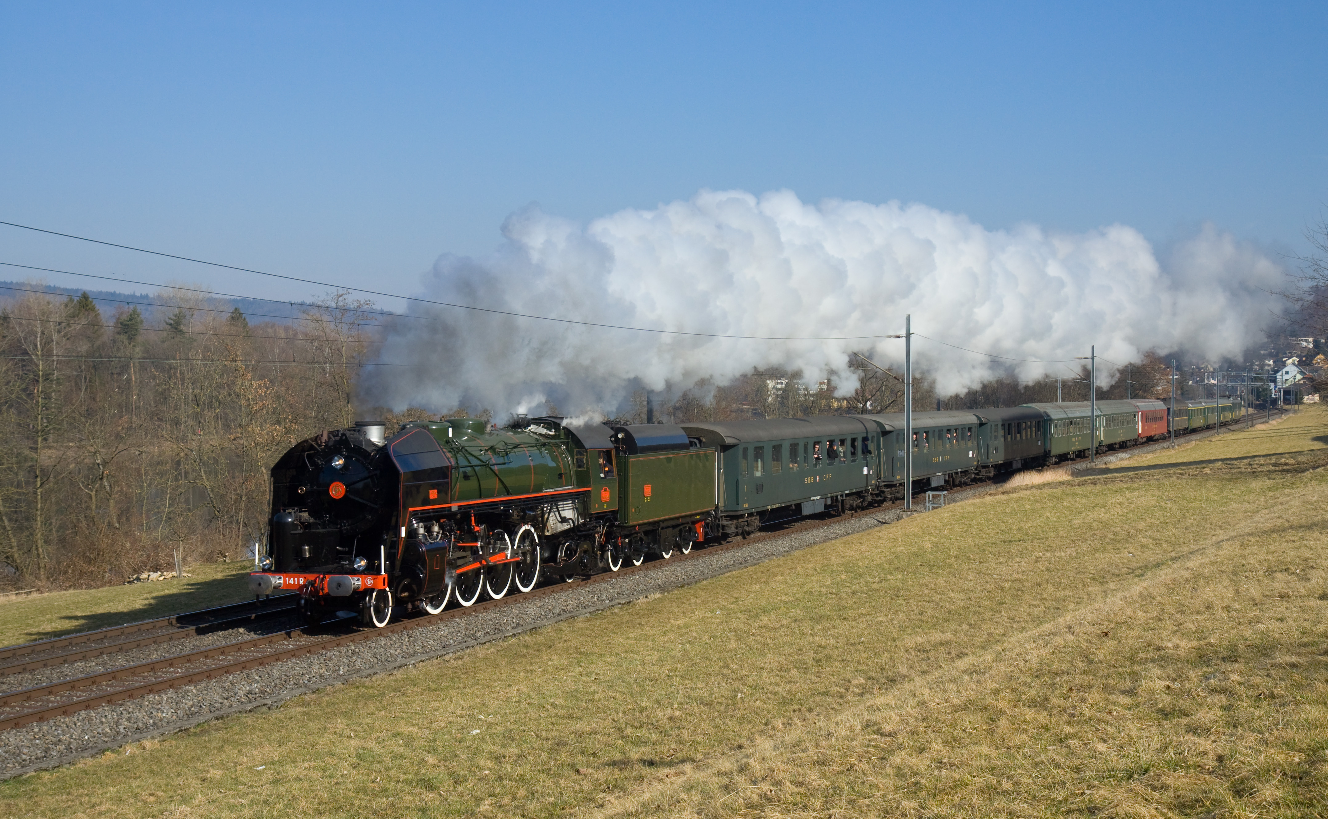 On March 10, 2012, the steam locomotive 141 R 1244 with a Zurich - Berne - Lyss - Bienne - Moutier - Delemont - Basle - Brugg train and return to Zurich.